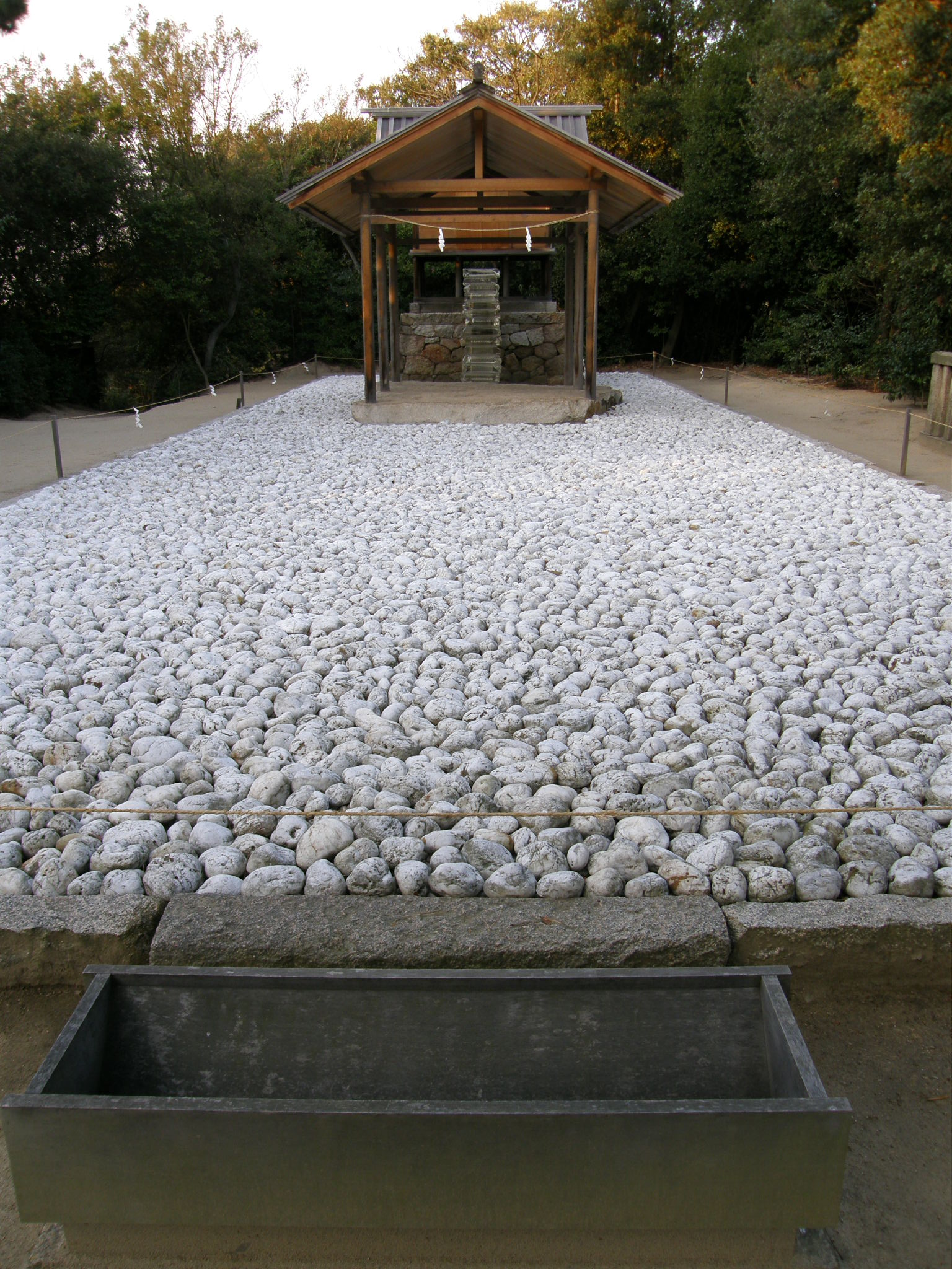 Art house project in Naoshima, Go-oh shrine